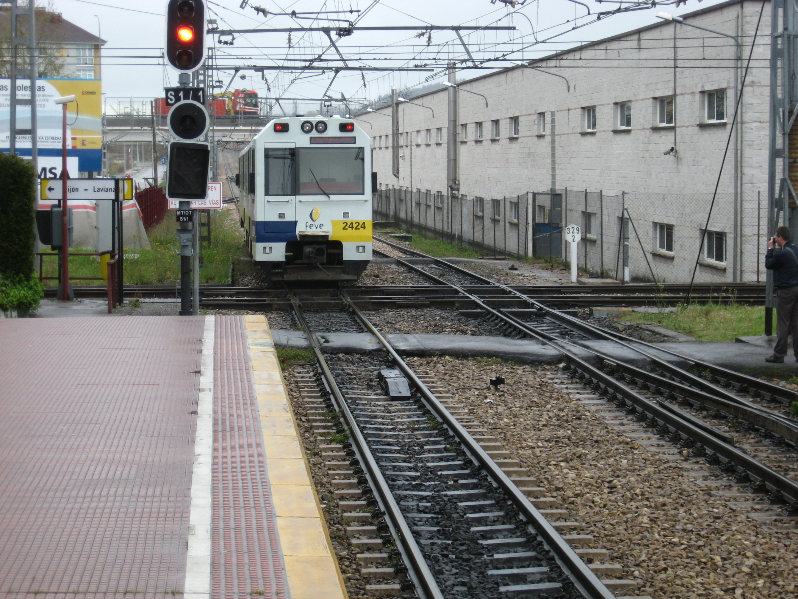 long distance train from Santander arriving in El Berrón